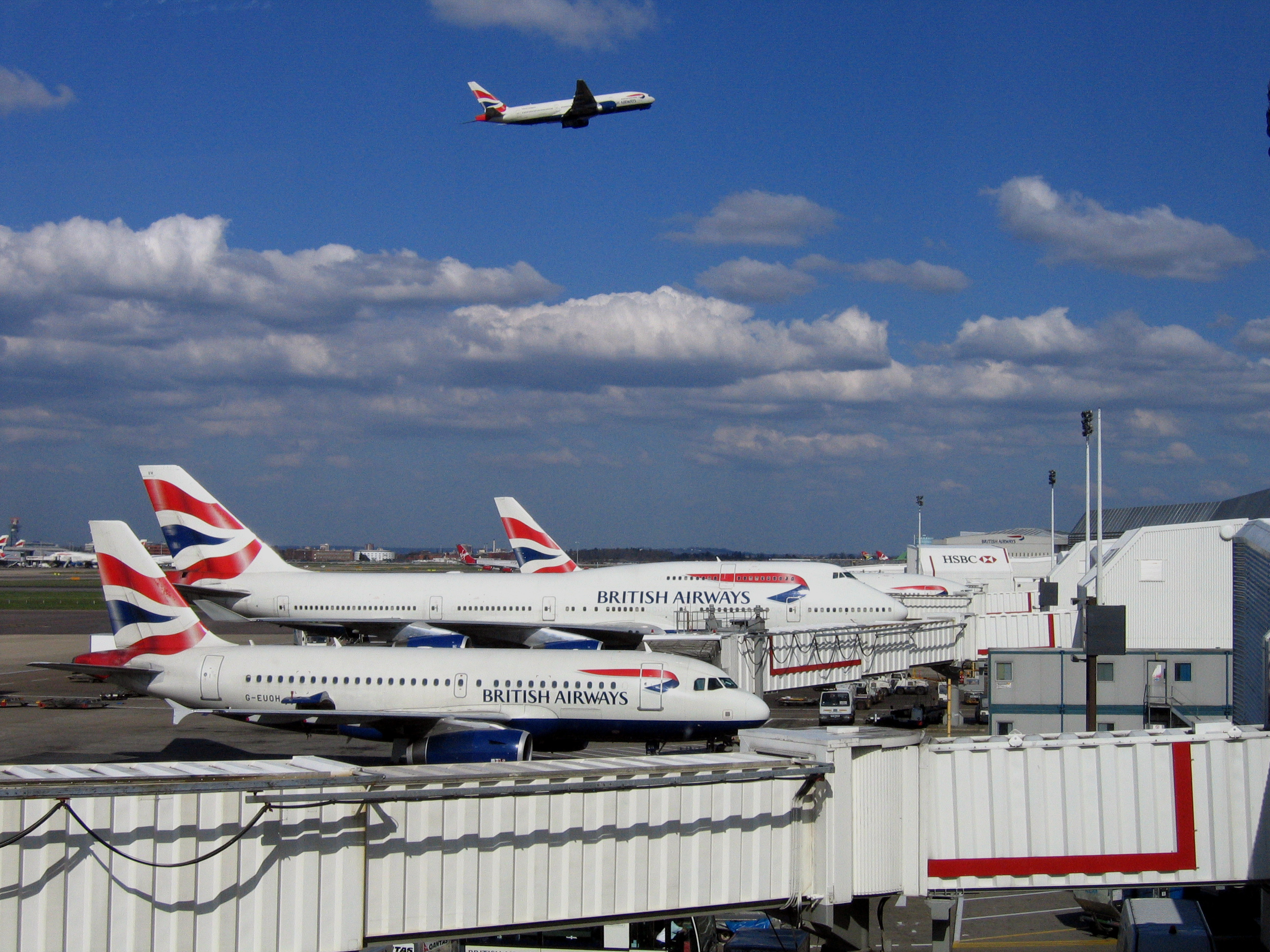 none